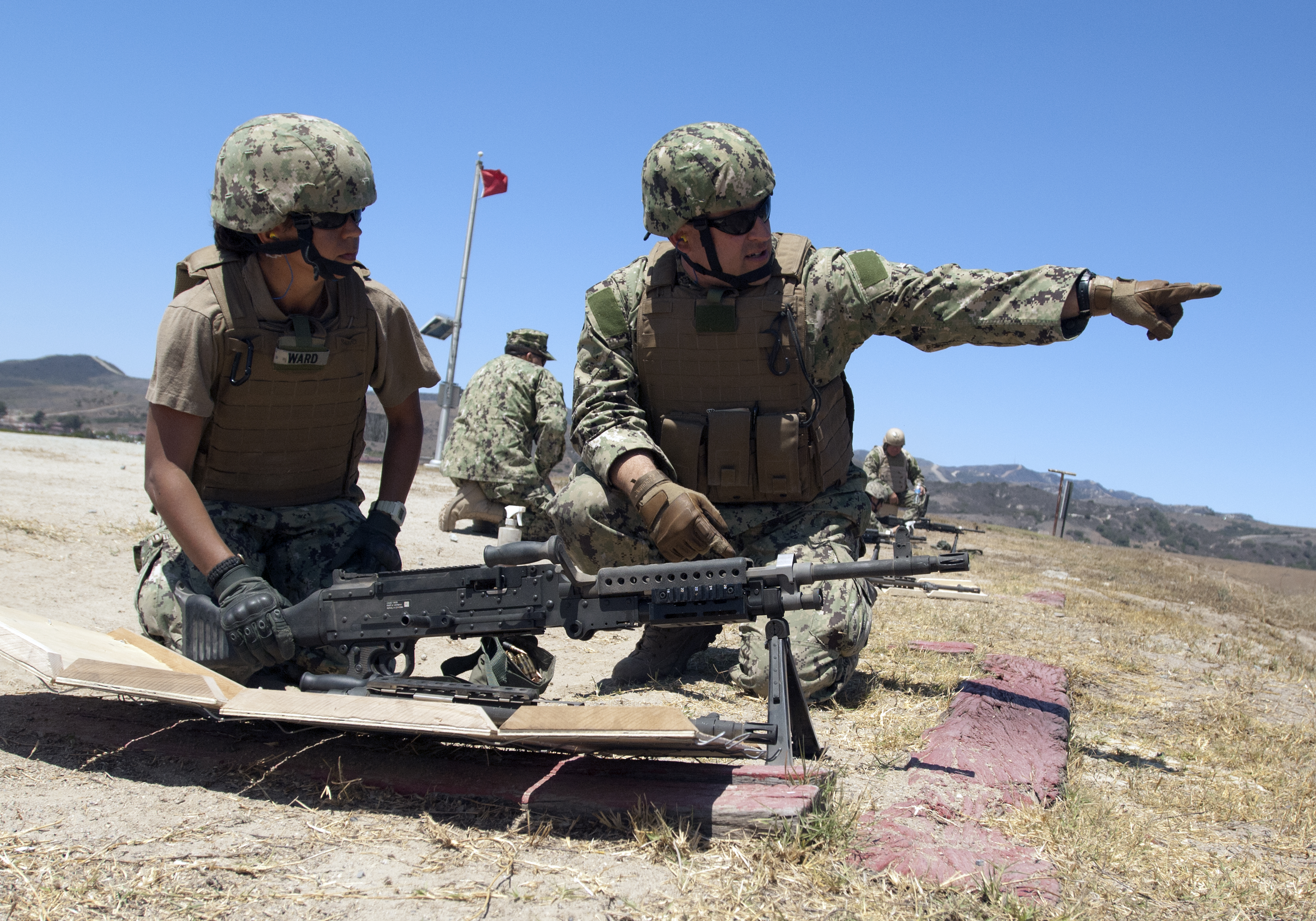 U.S. Navy Gunner's Mate 1st Class Chris Scheuerman, assigned to Coastal Riverine Squadron 11, directs Master-at-Arms 1st Class Maria Ward, manning a M240B machine gun, to her target during training July 17, 2013, at Marine Corps Base Camp Pendleton.